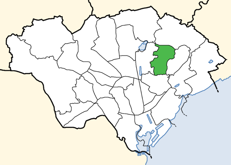 Location map showing electoral ward of Pentwyn within Cardiff, Wales, following the November 2016 Community Boundary Review. It covers the communities of Pentwyn and Llanedeyrn.